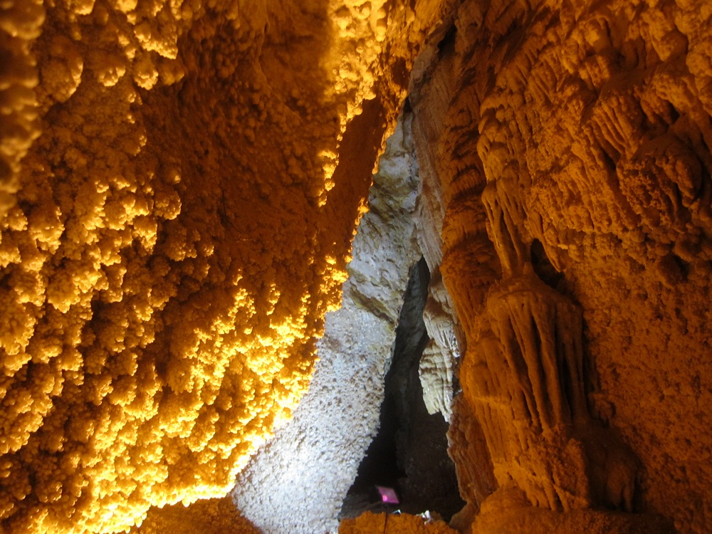 Chalnakhjir cave is a famous cave in Markazi province.